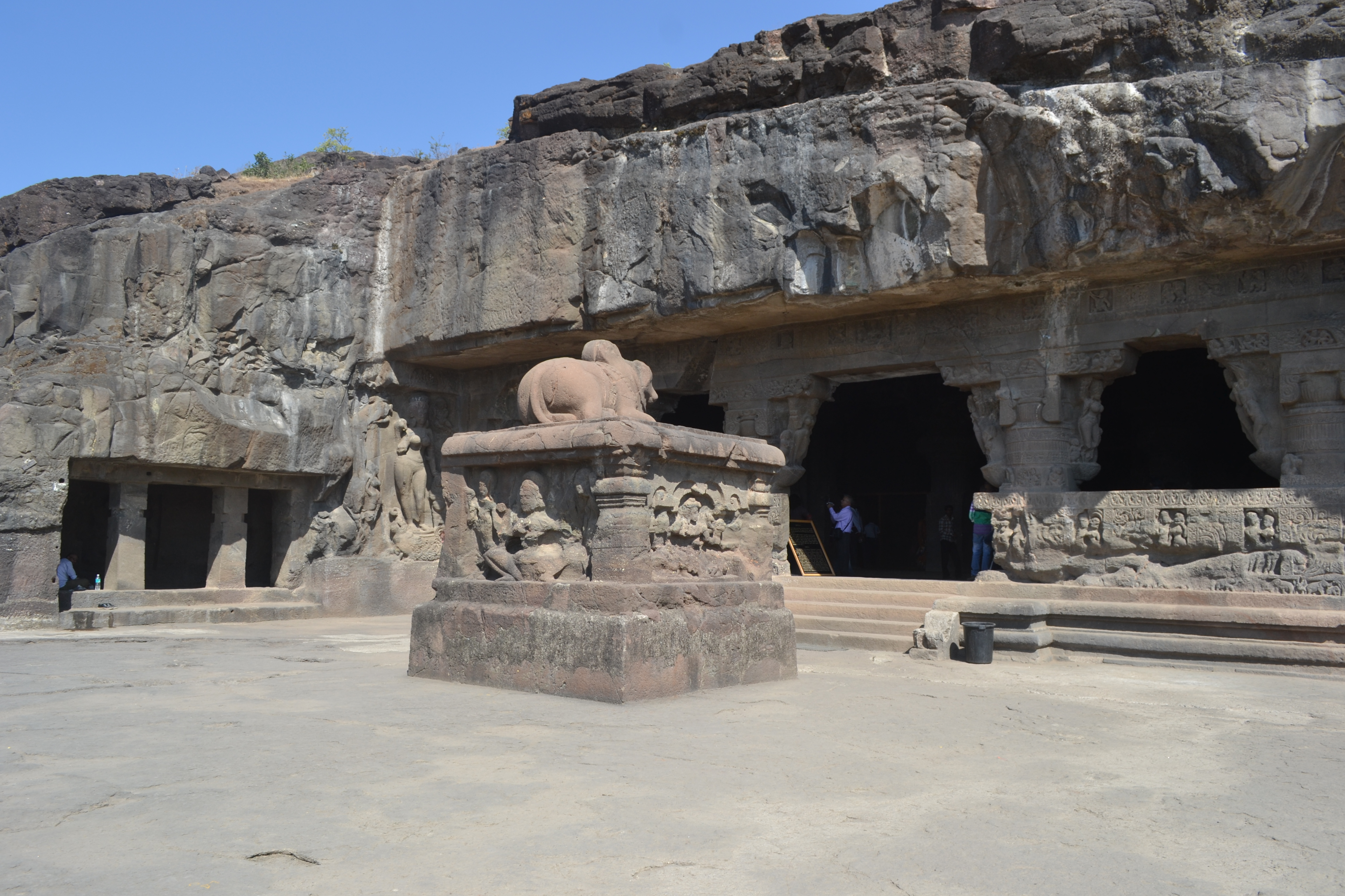 Cave No. 21 at Ellora Caves, Maharastra, India